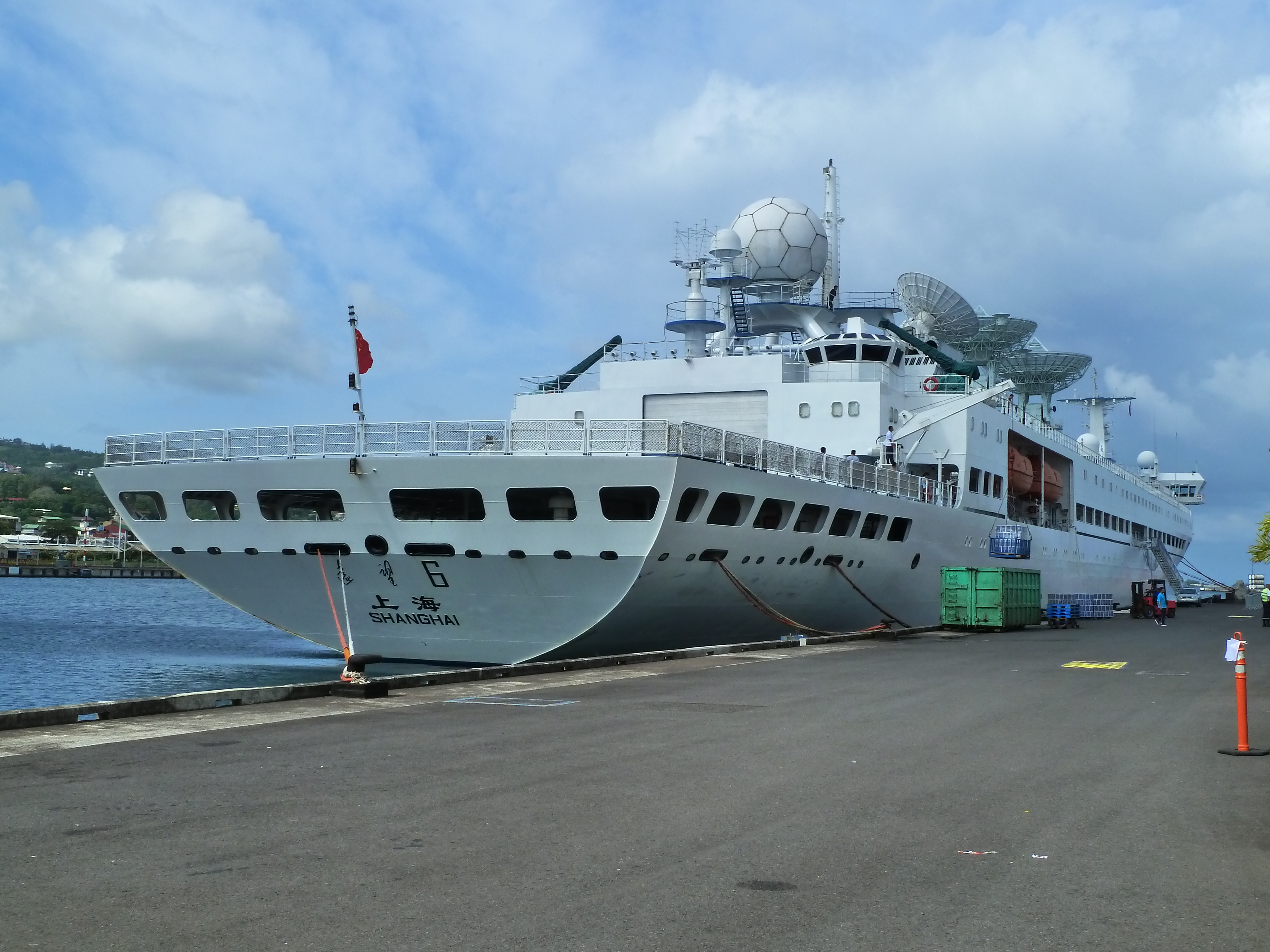 A Chinese tracking ship in port at Papeete, French Polynesia, December, 2011.